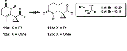 Enamidaciclica